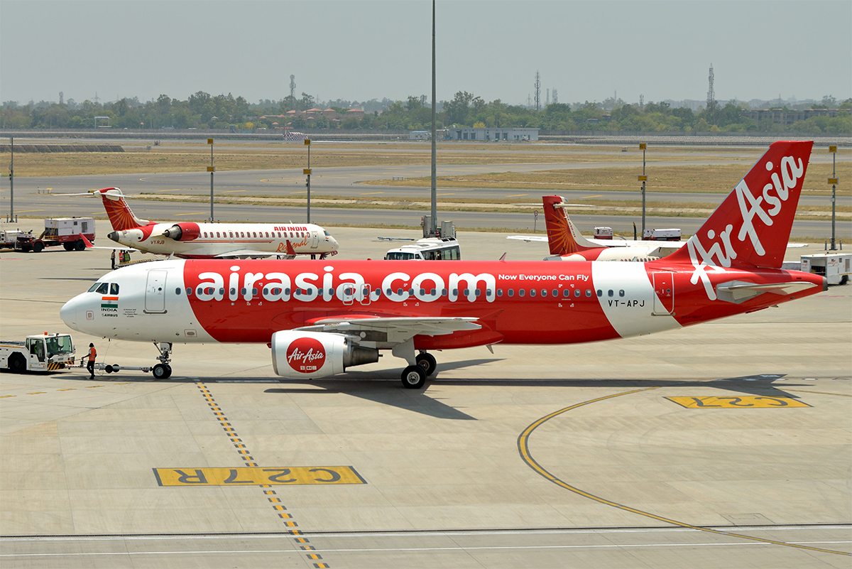 Taxiing out for departure from IGIA T-3. The caption by the front door reads, "In honour and memory of 'The Missile Man' of India" in tribute to late Dr. A.P.J. Abdul Kalam, former President of India.